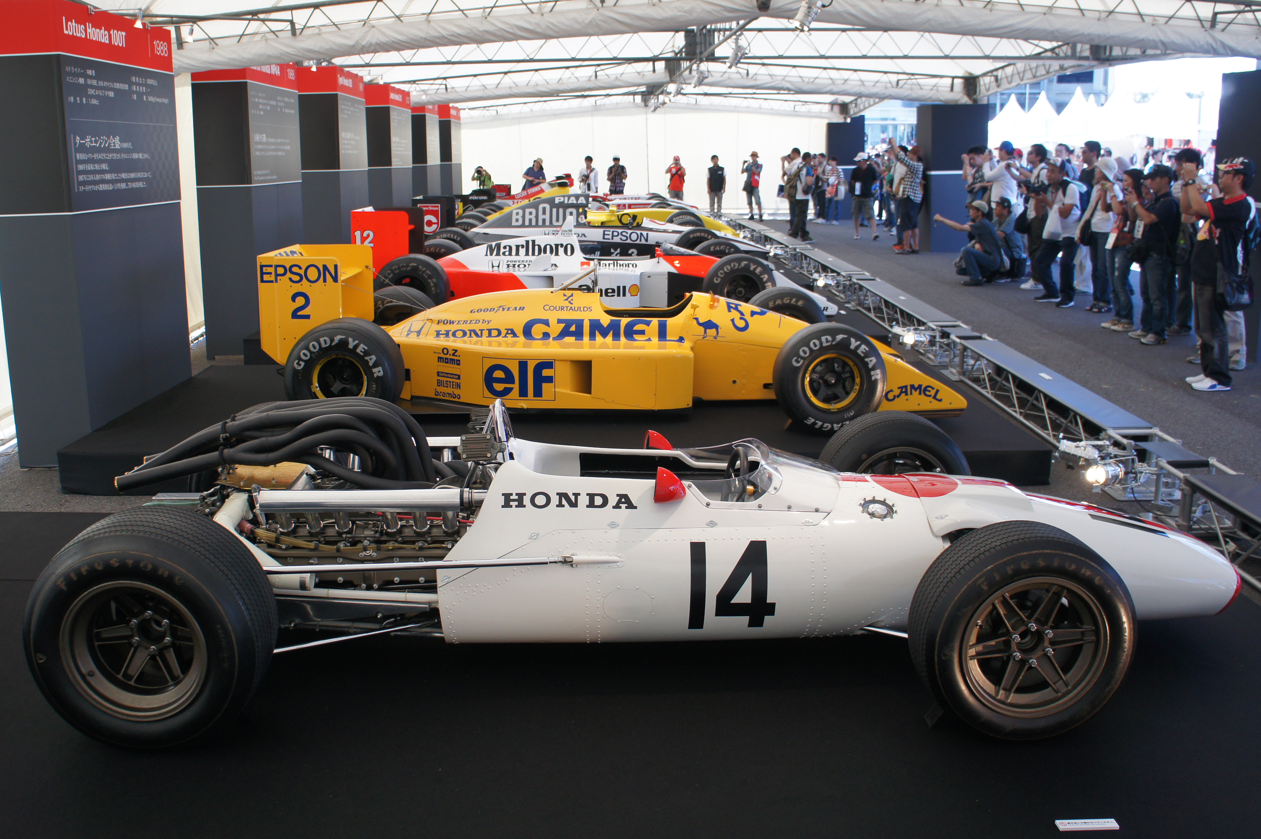 Formula One 2012 Rd.15 Japanese GP: Honda-powered car exhibition. From near side; Honda RA300, Lotus-Honda 100T, McLaren-Honda MP4/4, Tyrrell-Honda 020, Jordan-Honda EJ12, BAR-Honda 007, and Super Aguri-Honda SA07